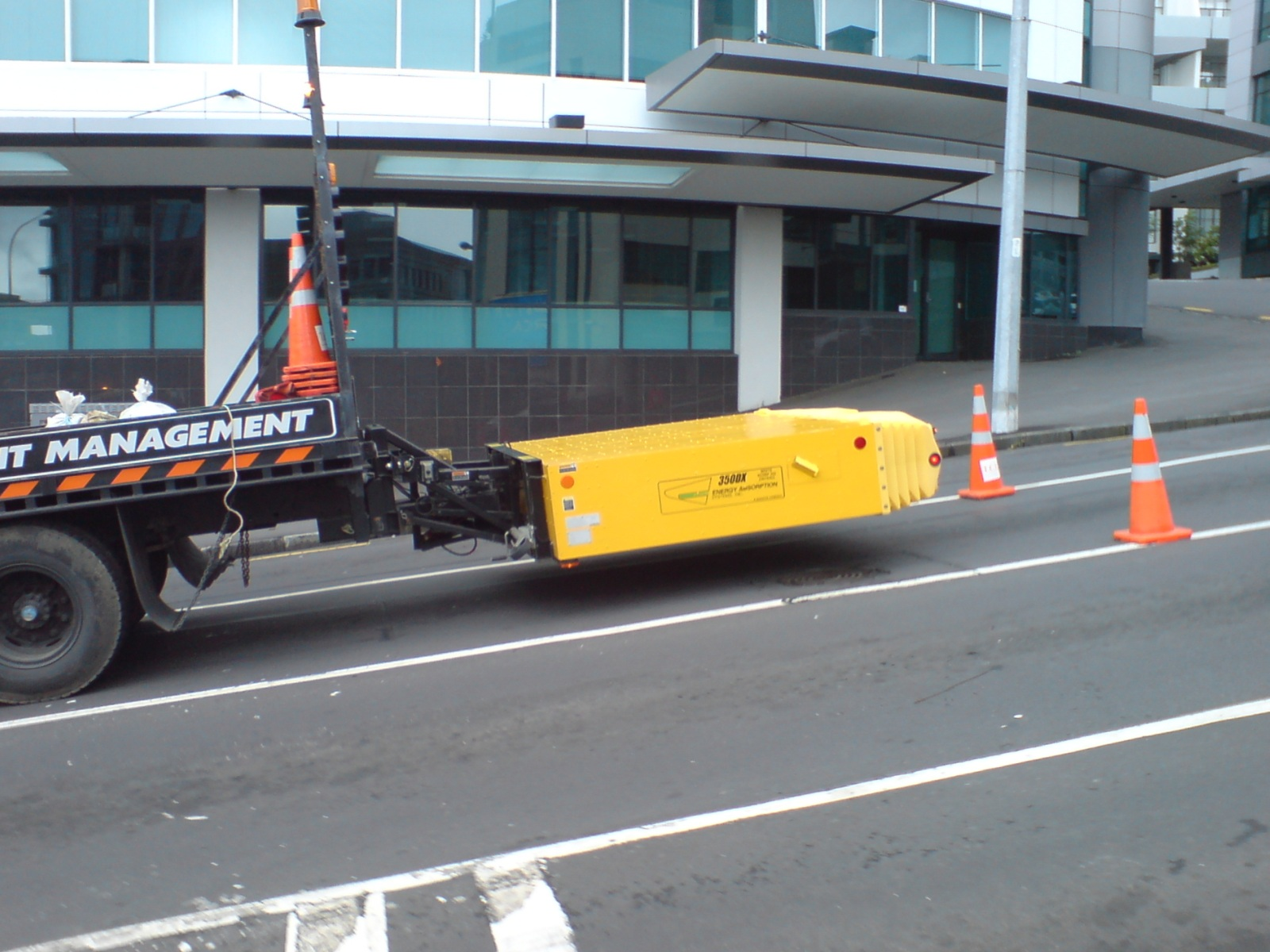 An attenuator, used to transform the impact of a car speeding into a roadworks site by crumpling. The right part will fold like a harmonica for very slow impacts, while the middle yellow section will collapse like a crumple zone in a car. The whole assembly is always mounted on a truck (raised up when not in use), which also provides the main mass slowing down the moving car by being pushed forward on impact (at higher speeds, not all energy can be absorbed in the attenuator). Shown near intersection roadworks in Auckland City, New Zealand, at the bottom of Nelson Street.